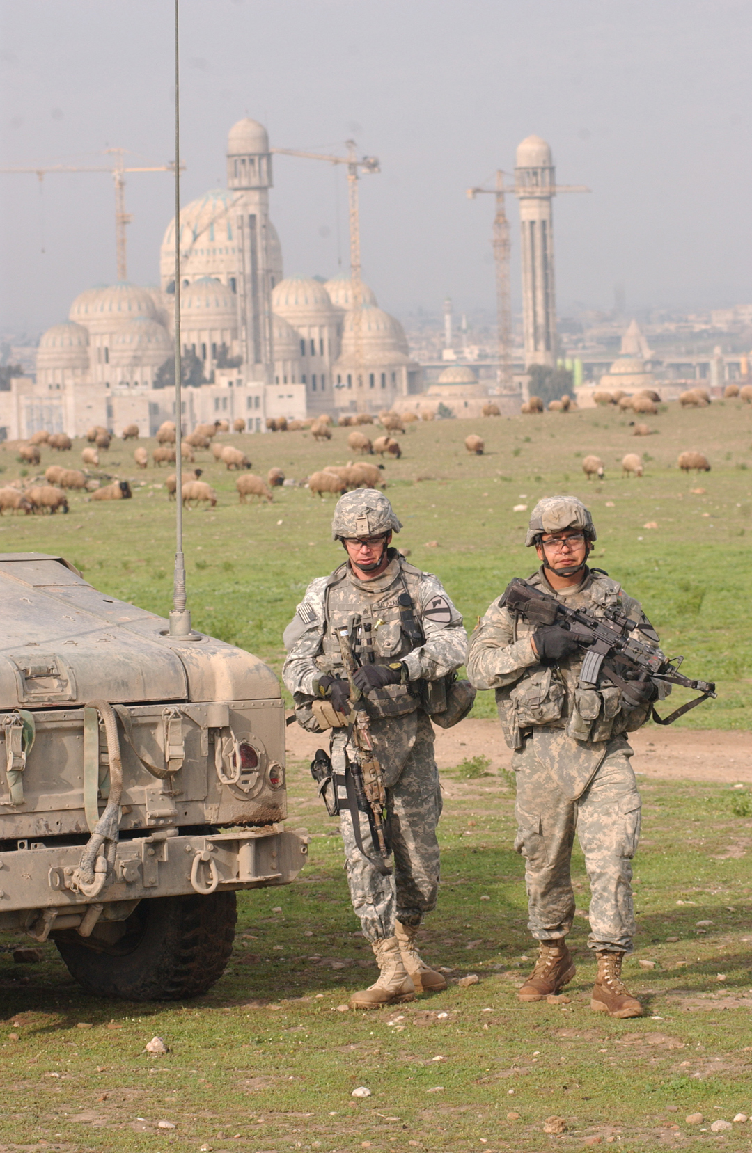 U.S. Army Soldiers patrol through the Nineveh ancient ruins in Mosul, Iraq, April 4, 2007. The Soldiers are with Delta Company, 2nd Battalion, 7th Cavalry Regiment, 4th Brigade Combat Team, 1st Cavalry Division, Fort Bliss, Texas. (U.S. Air Force photo by Staff Sgt. Vanessa Valentine)